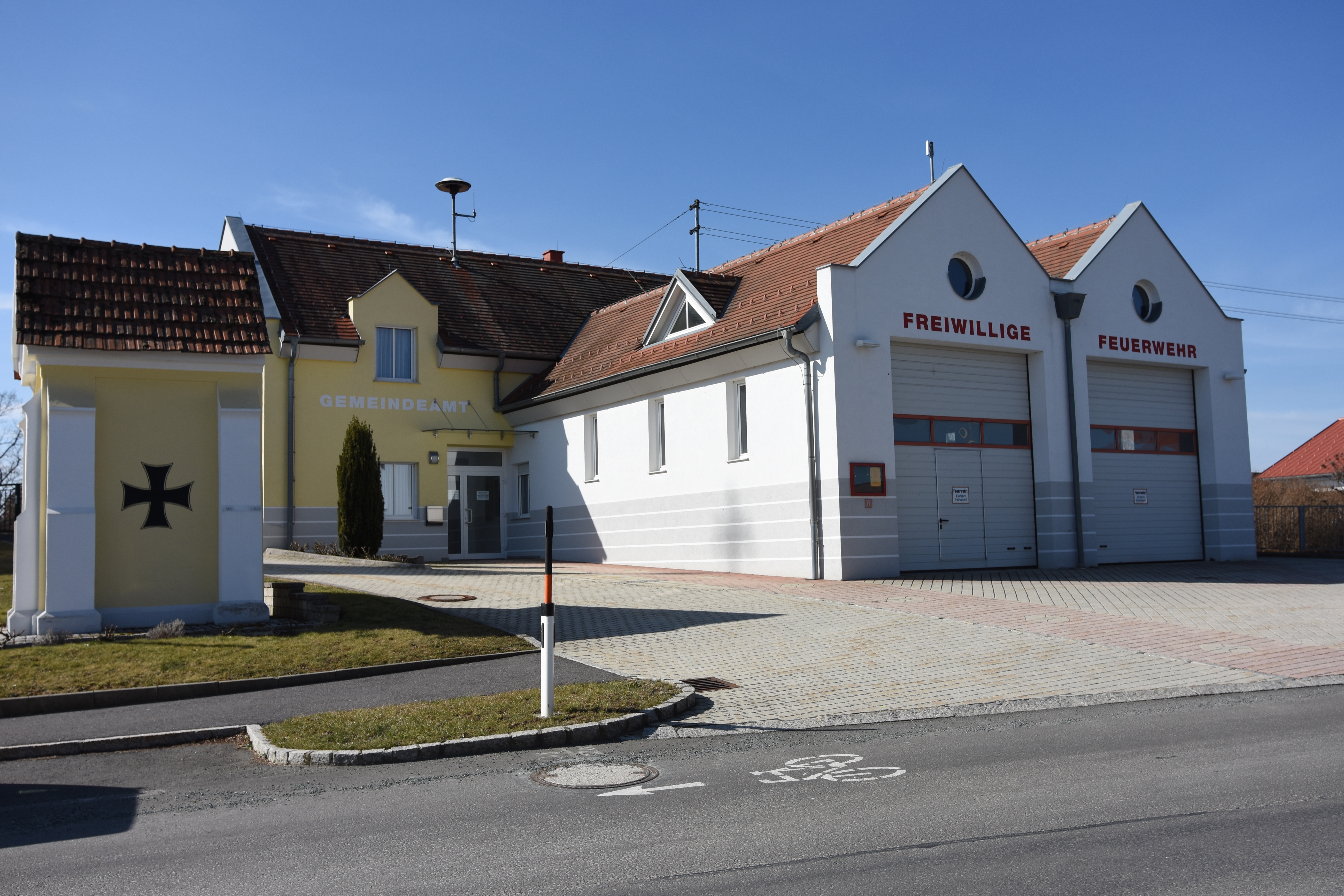 Firebrgarde Großmürbisch